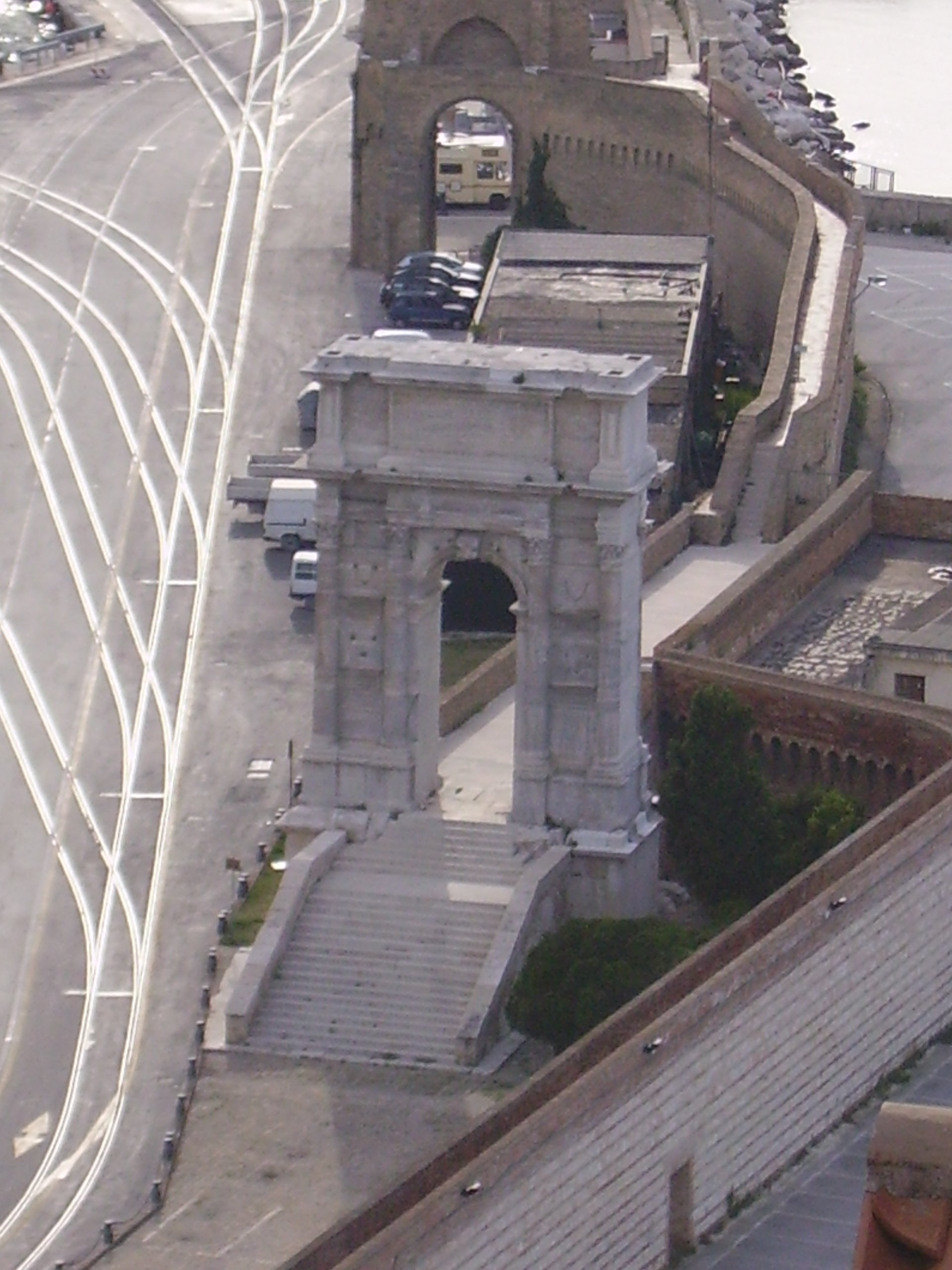 triumphal arch erected in Ancona to commemorate the roman emperor Trajan